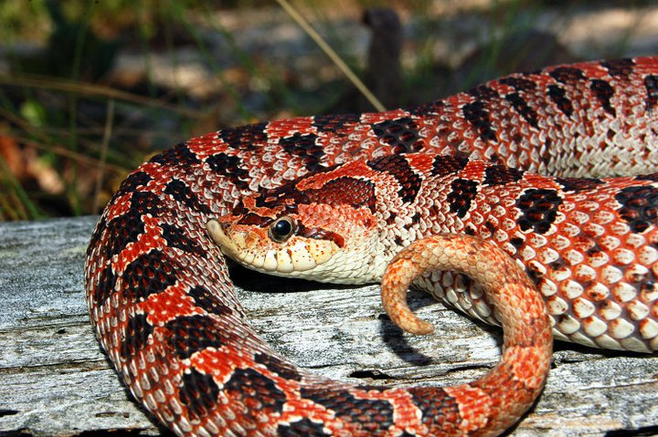 Red Phase Southern Hognose Snake